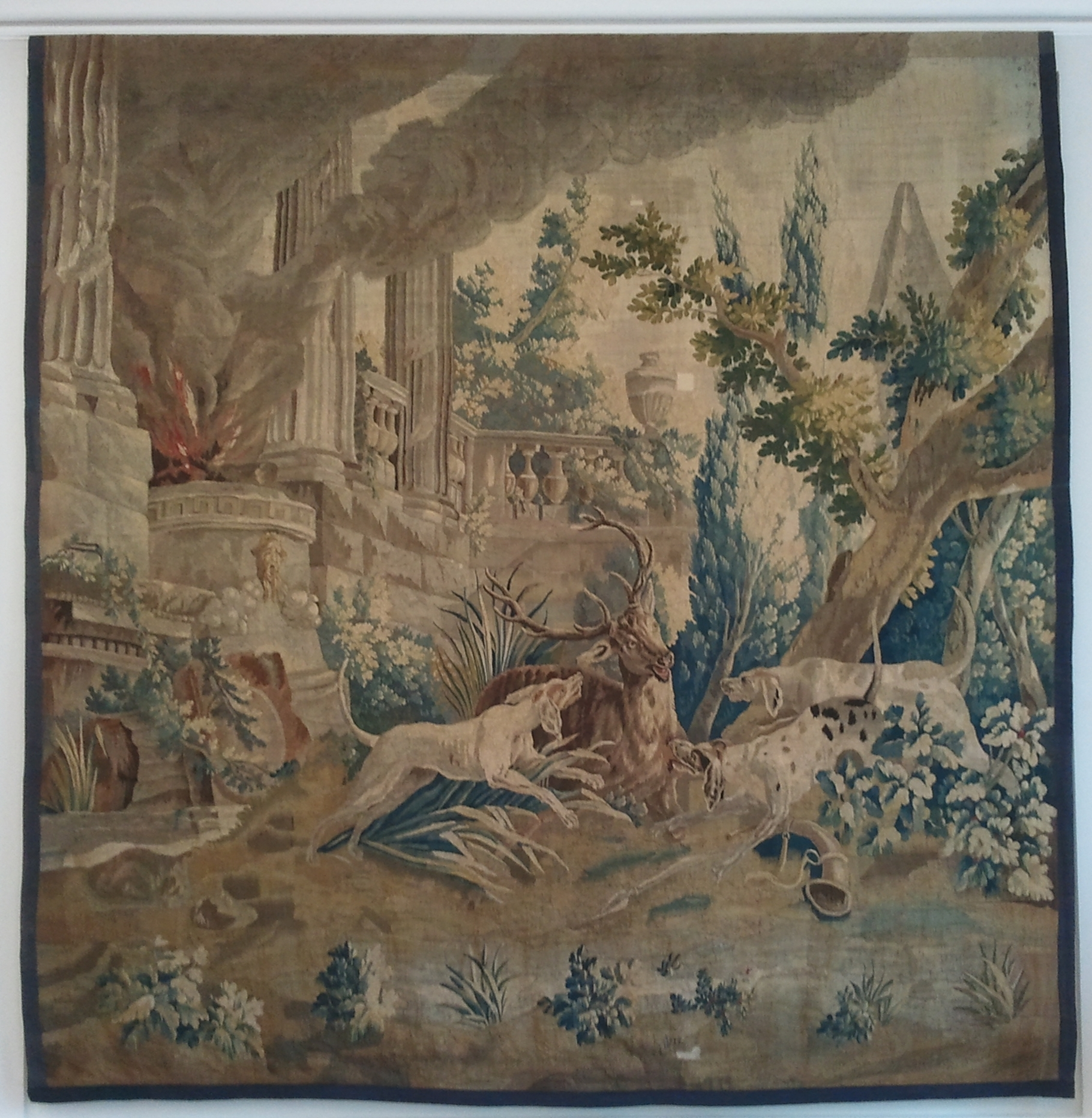 Gobelin "Aktaion" in the "Altes Rathaus" (Old Town Hall) of Bonn, Germany. Made by Jean Baptiste Oudry in 1750.